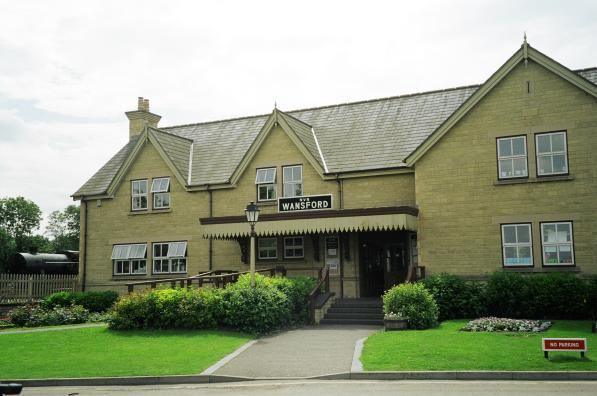 Wansford Station on the Nene Valley Railway "All photographs are Â© Owen Dunn. You may reproduce them anywhere for any purpose."